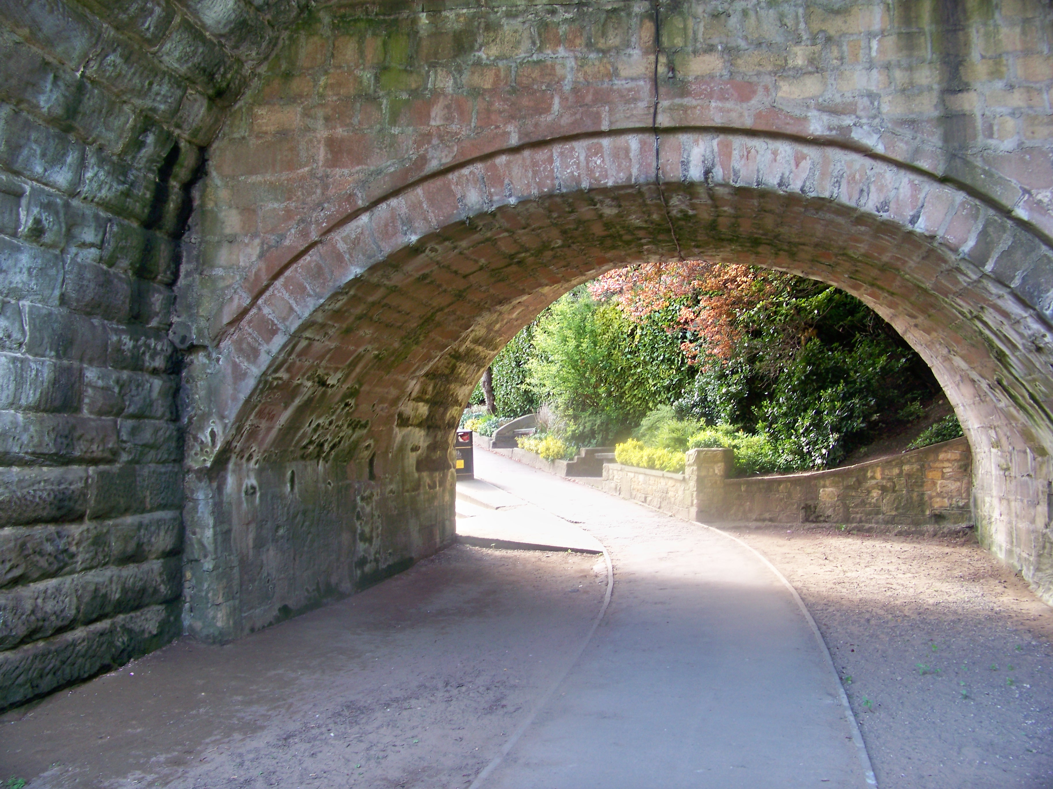 Looking through the pedestrian arch of Wetherby Bridge. The three original bridges are evident from the changes of height in the span. Taken on the afternoon of Monday the 3rd of May 2010 (Mayday bank holiday).